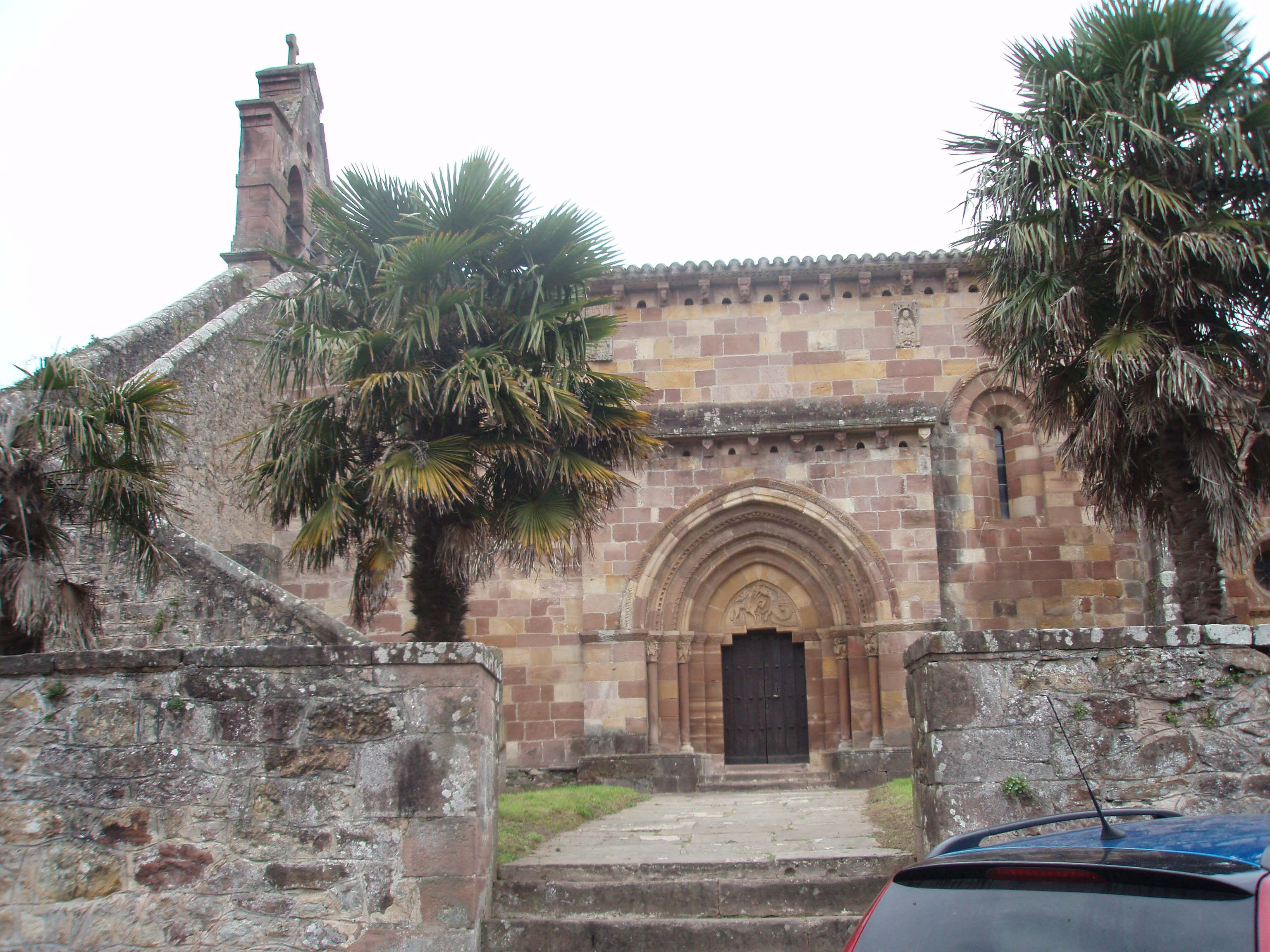 Church of Santa María, Yermo, municipality of Cartes.